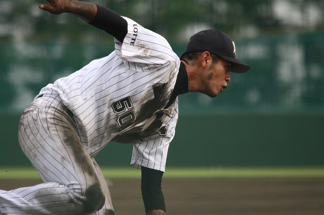 Shōta Ōmine, an infielder of the Chiba Lotte Marines, at the Lotte Urawa Baseball Ground.